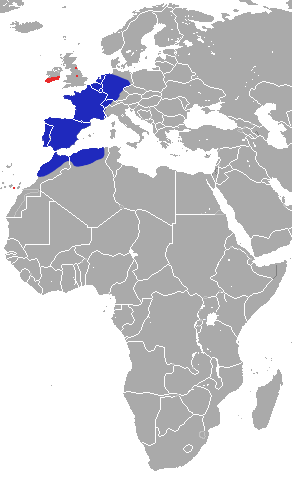 Greater White-toothed Shrew (Crocidura russula) range (blue — native, red — introduced)